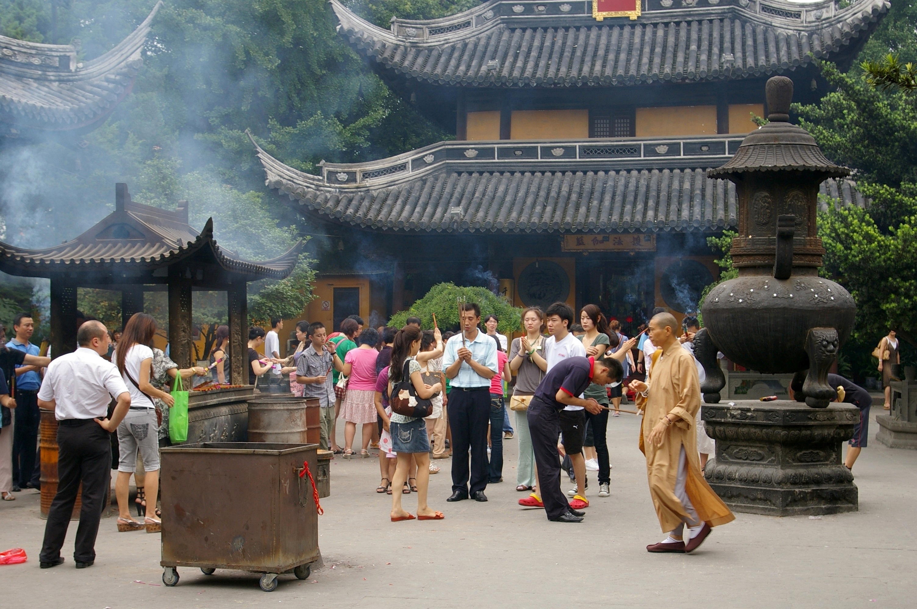 The Longhua Temple in Shanghai